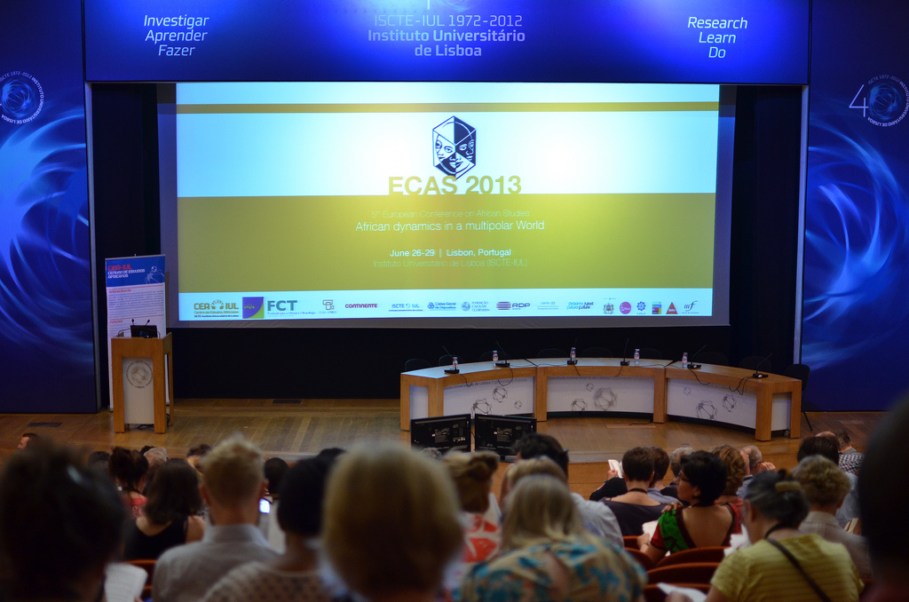 ECAS 2013 in Lisbon. European Conference on African Studies, organized by AEGIS. Venue: ISCTE-IUL (Instituto Universitario de Lisboa), June 2013